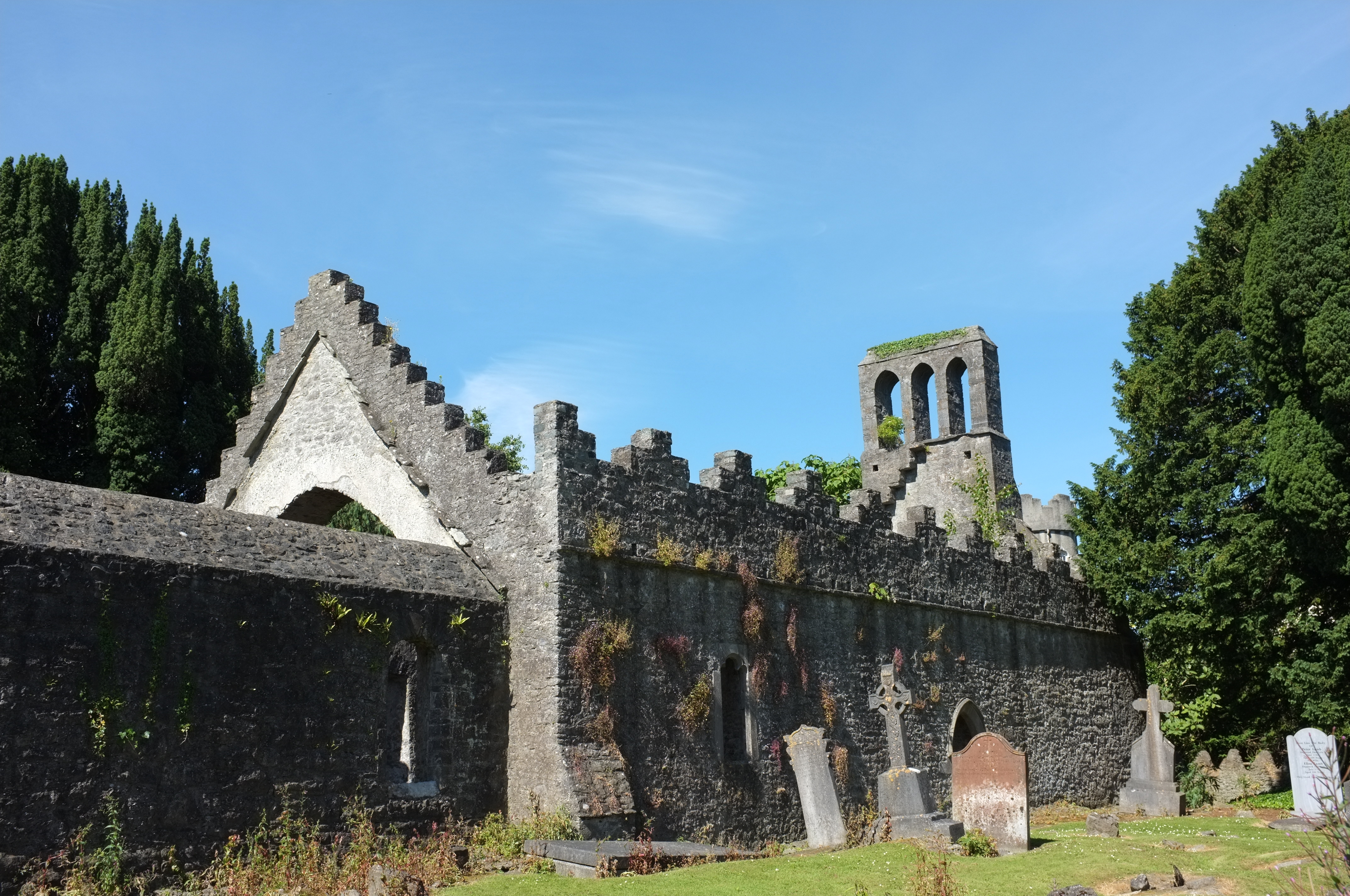 The ruins of Malahide Abbey at Malahide Castle